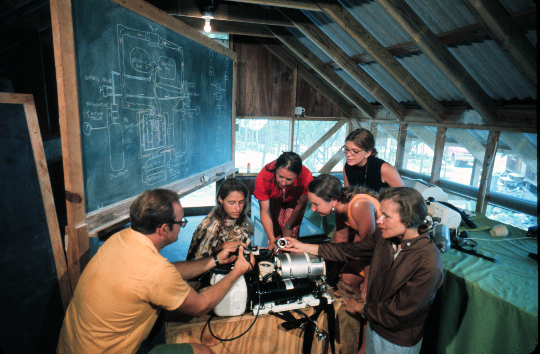 TEKTITE II all-female team, led by Sylvia Earle (far right), in rebreather training.